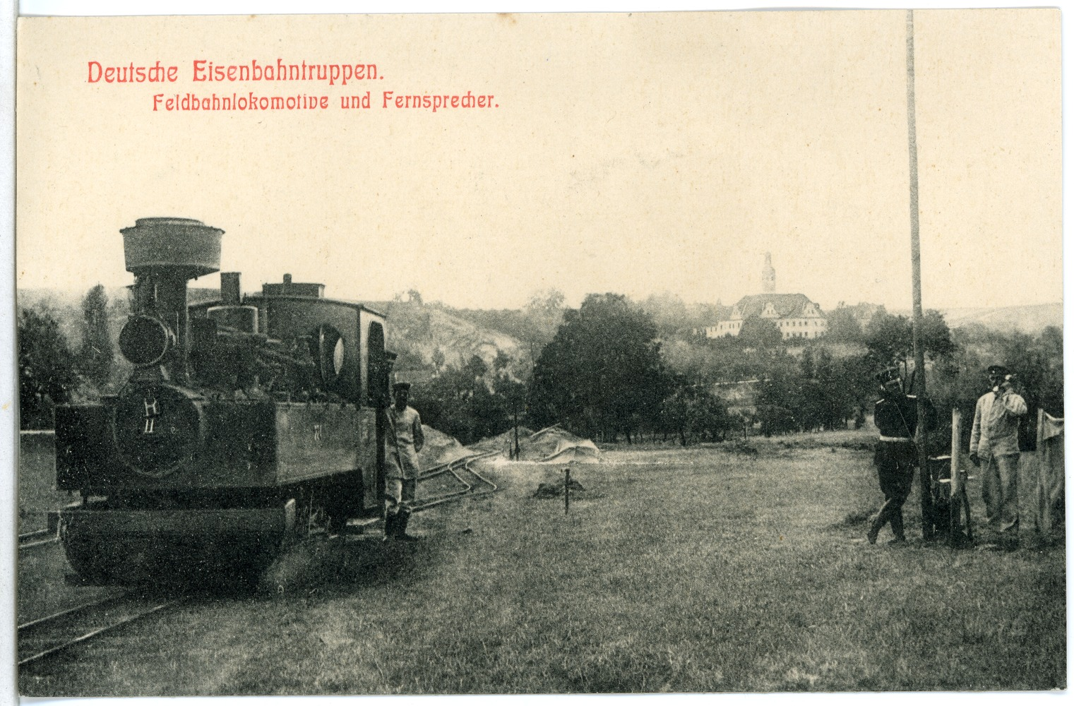 This postcard is from publisher Brück & Sohn in Meißen ( This postcard has a unique number 11412 and is available in a higher resolution at the publisher. This images was uploaded in a cooperation project between Wikipedians and the publisher.